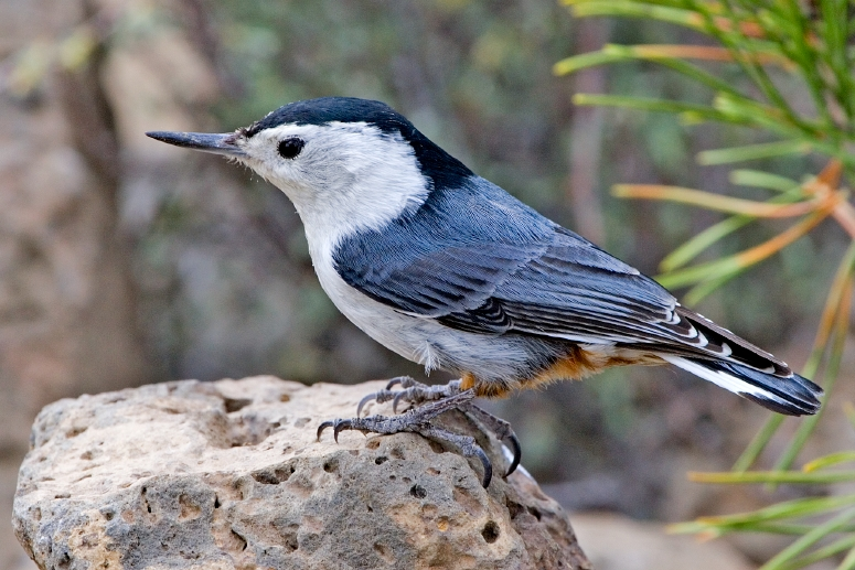 White-breasted Nuthatch Sitta carolinensis nelsoni, Cabin Lake Viewing Blinds, near Fort Rock, Oregon